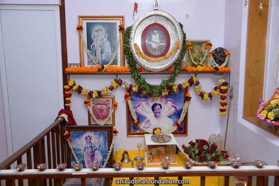 Visit to Hemadpant's Sai Niwas's Home Mandir